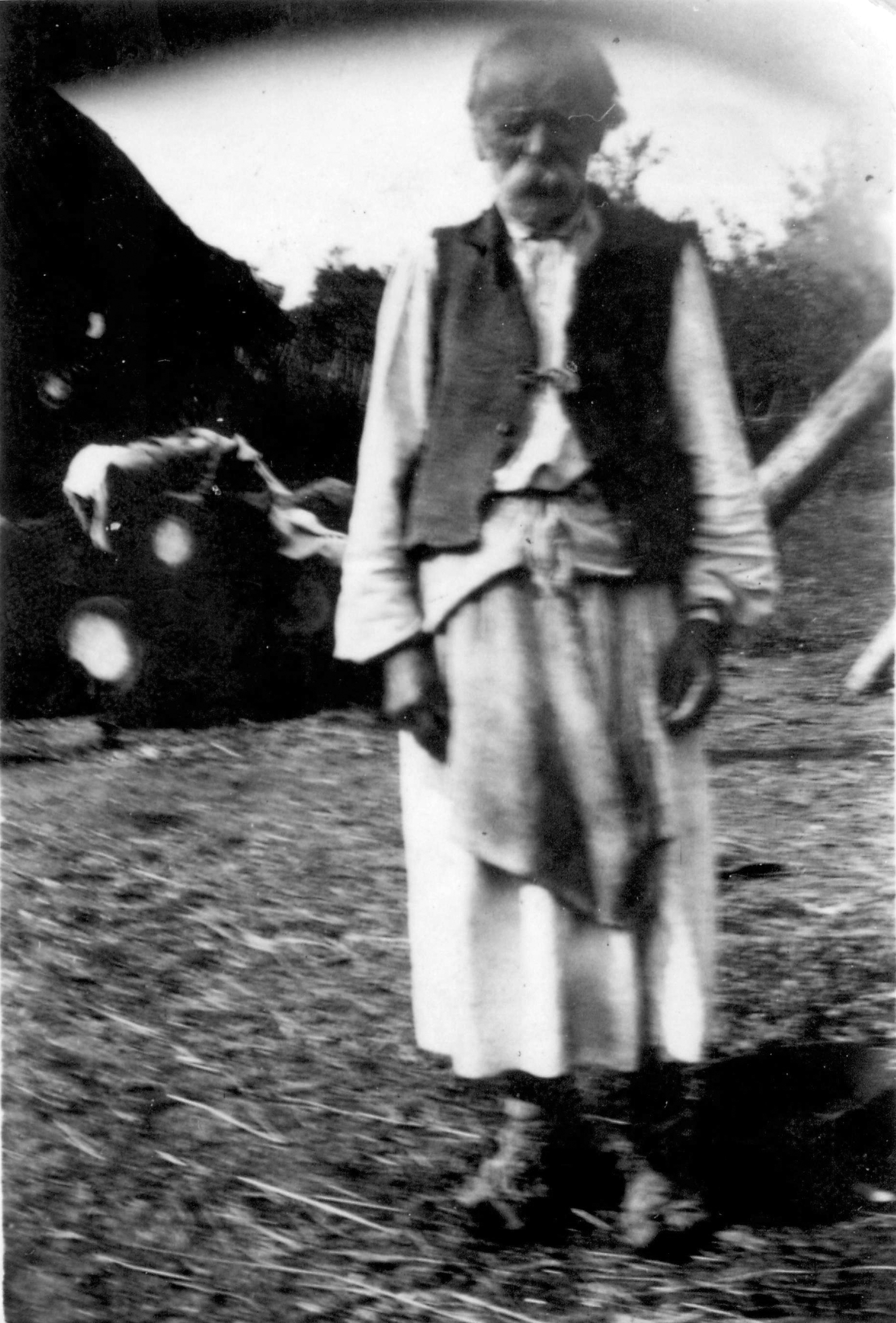 Ioan Cighi in the 1930s